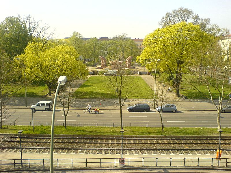 Arnswalder Platz in Berlin, Prenzlauer Berg, seen from Danziger Straße